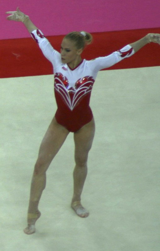 London 2012 - Women's Team Gymnastics Final (Image cropped from original at Flickr. Adjusted brightness)